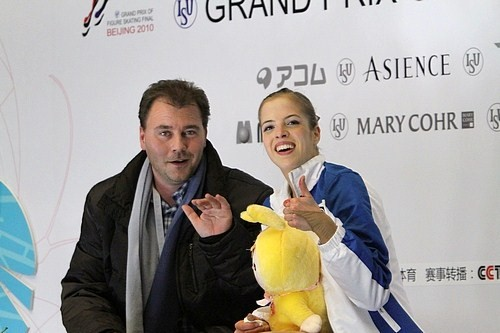 Carolina Kostner with their coache Michael Huth at the 2010-2011 Grand Prix of Figure Skating Final.